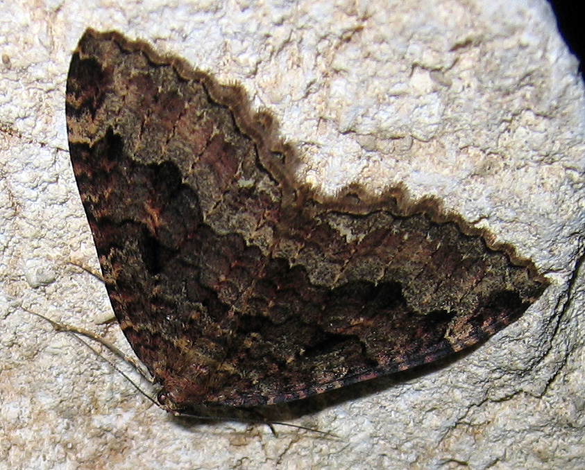 Triphosa dubitata, in a cave near Bad Ischl, Austria